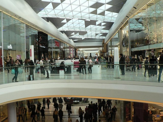 Shepherd’s Bush: Westfield shopping centre Looking along one of the thoroughfares of this massive shopping centre.